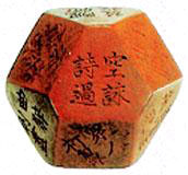 경주 목제주령구의 복제본 촬영